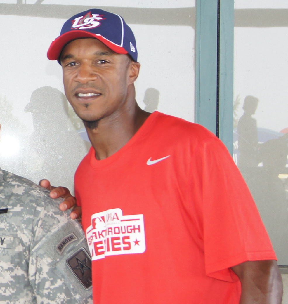 Rasheed Wallace (NBA) (left) and Brian Hunter (MLB) (right) along with Darrell Miller (left), VP Youth and Facility Development MLB and COL Donald Williams, Deputy Director for Operations and Training US Army Accessions Command (right) pose for a picture during a game in the 2011 MLB Breakthrough Series.